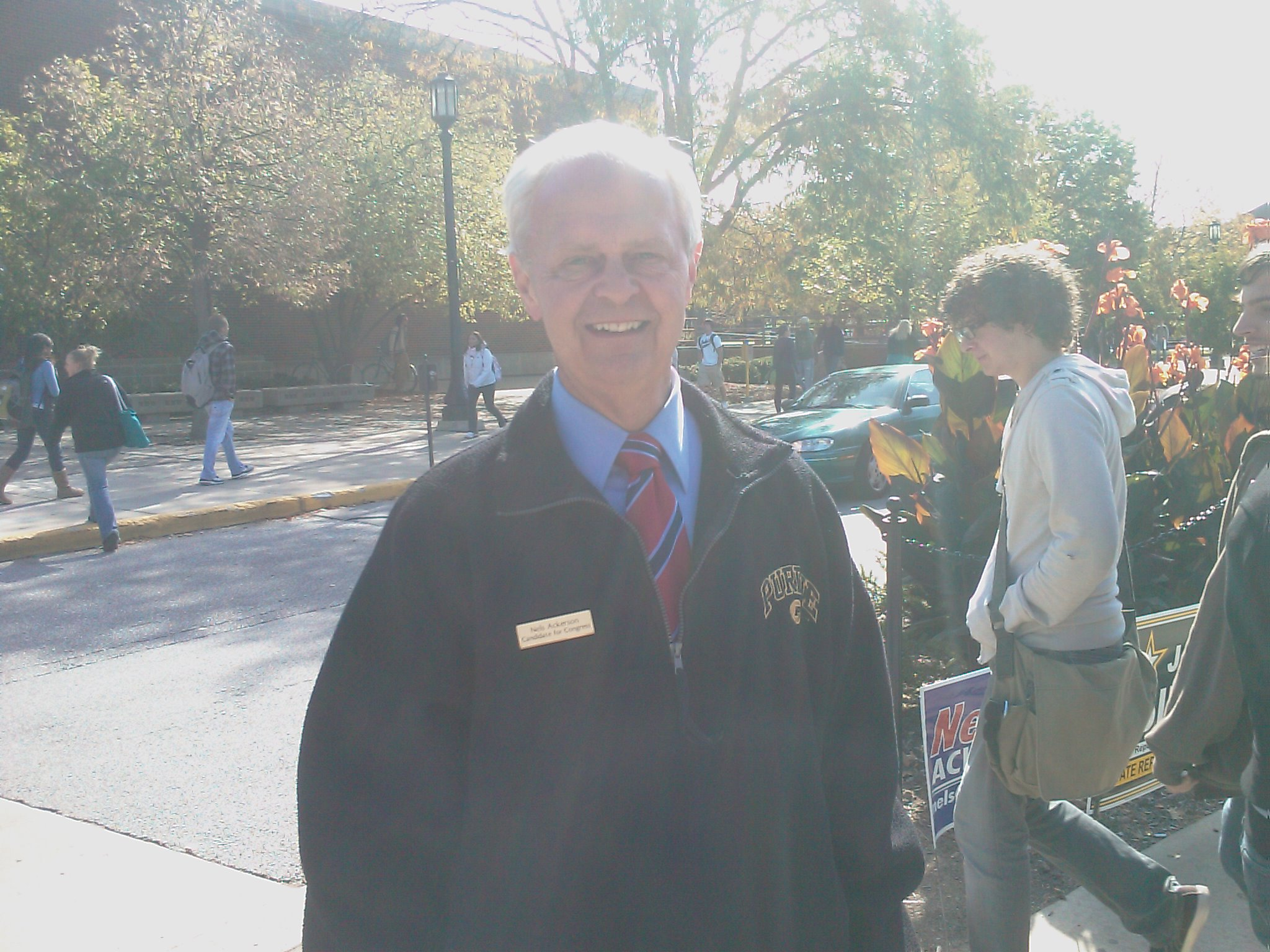 Nels Ackerson campaigns for a seat in Indiana's fourth congressional district, on the campus of Purdue University.